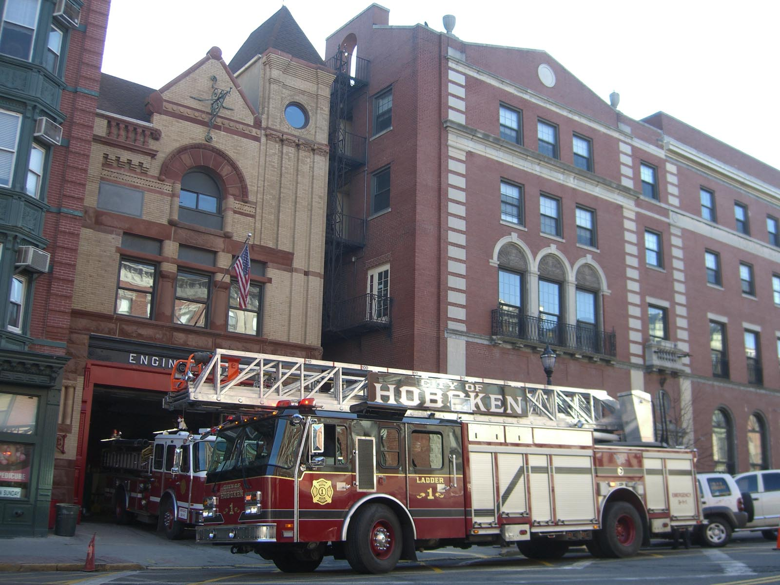 Engine and Ladder 1 Firehouse in Hoboken, New Jersey. Photo by Luigi Novi. This photo may be used for any purpose, provided that the photographer is visibly credited in each instance where it is used. For further information on the Licensing requirements (See Licensing information below), contact me at here.